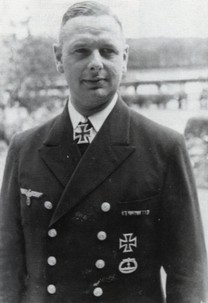 Viktor Schütze during World War II